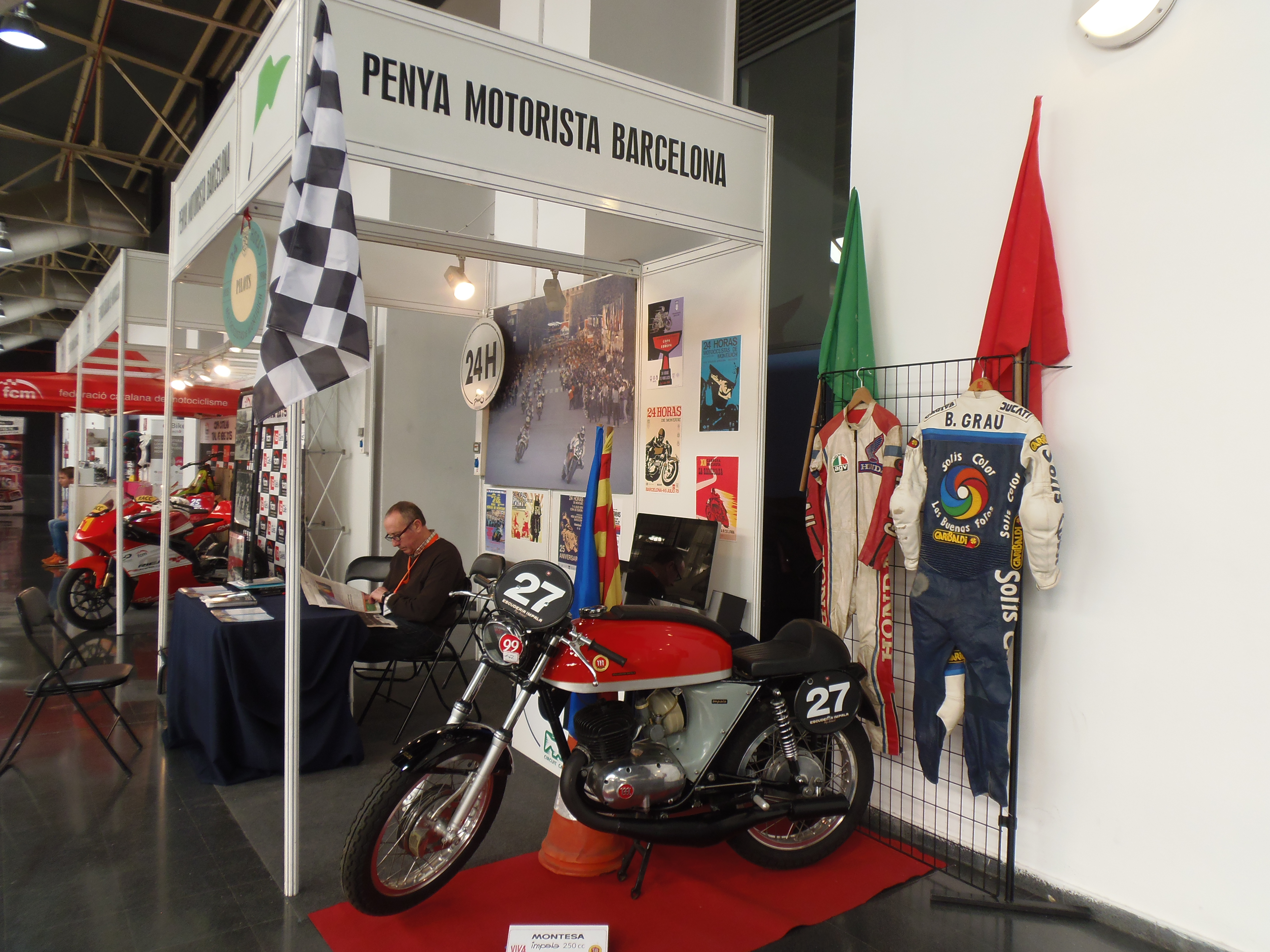 The stand of Penya Motorista Barcelona at 2015 BCN Moto